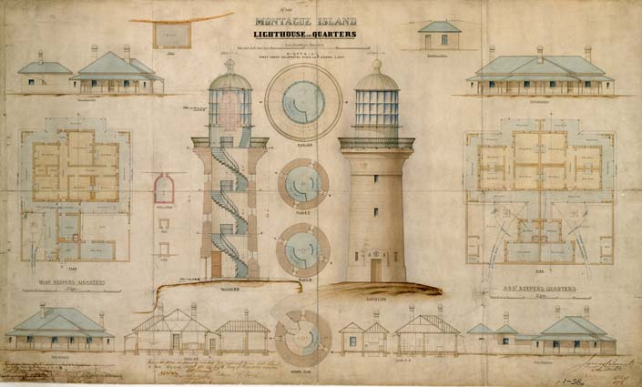 Montague Island Lighthouse, plans of lighthouse and quarters, by James Barnet, created 1878.